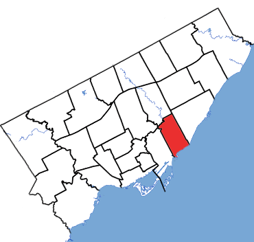 Beaches-East York in relation to the other Toronto ridings (2015 boundaries)